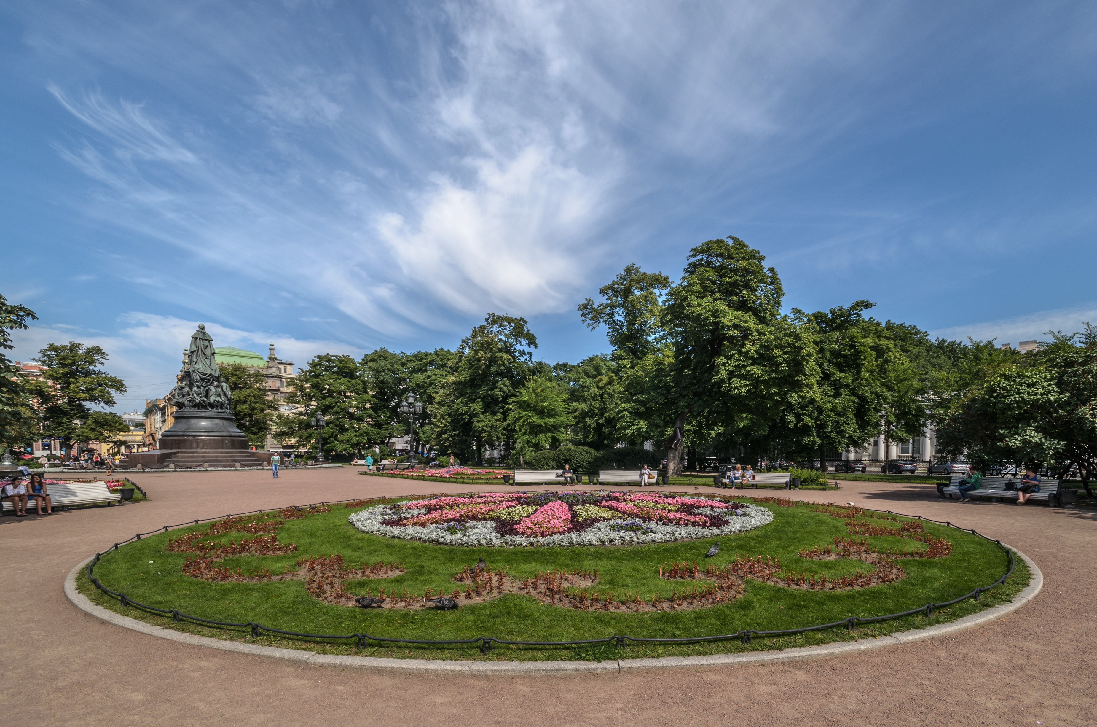 Ostrovskogo Square in Saint Petersburg